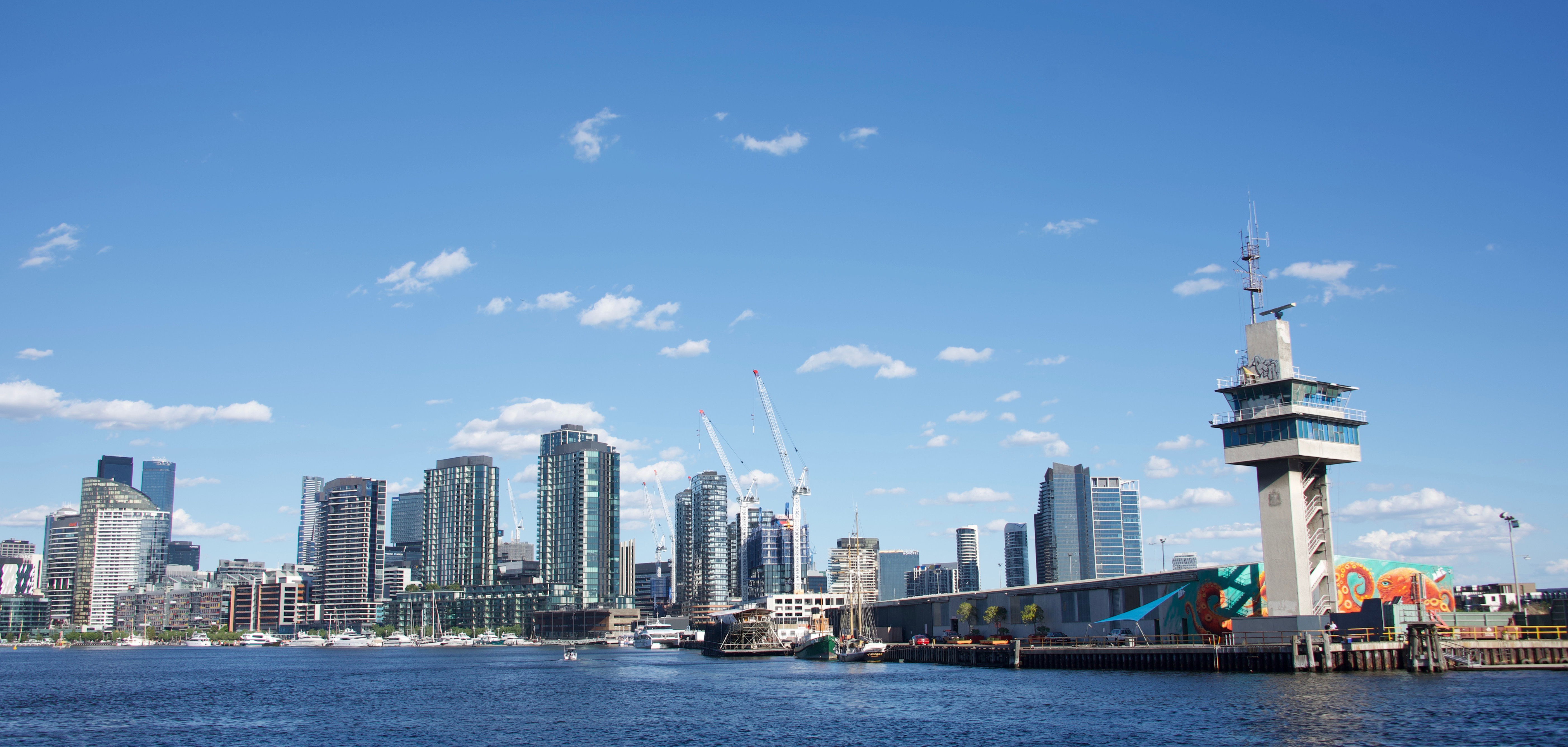 Melbourne Docklands, North Wharf .